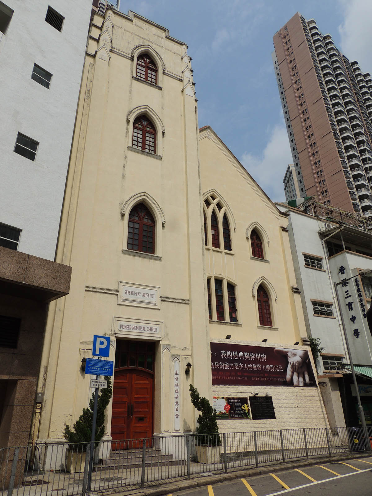 Pioneer Memorial Church of Seventh-day Adventists, Happy Valley, Hong Kong